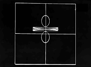 Slightly-edited image of gameplay from Space Travel, a simulation game developed by Ken Thompson in 1969.